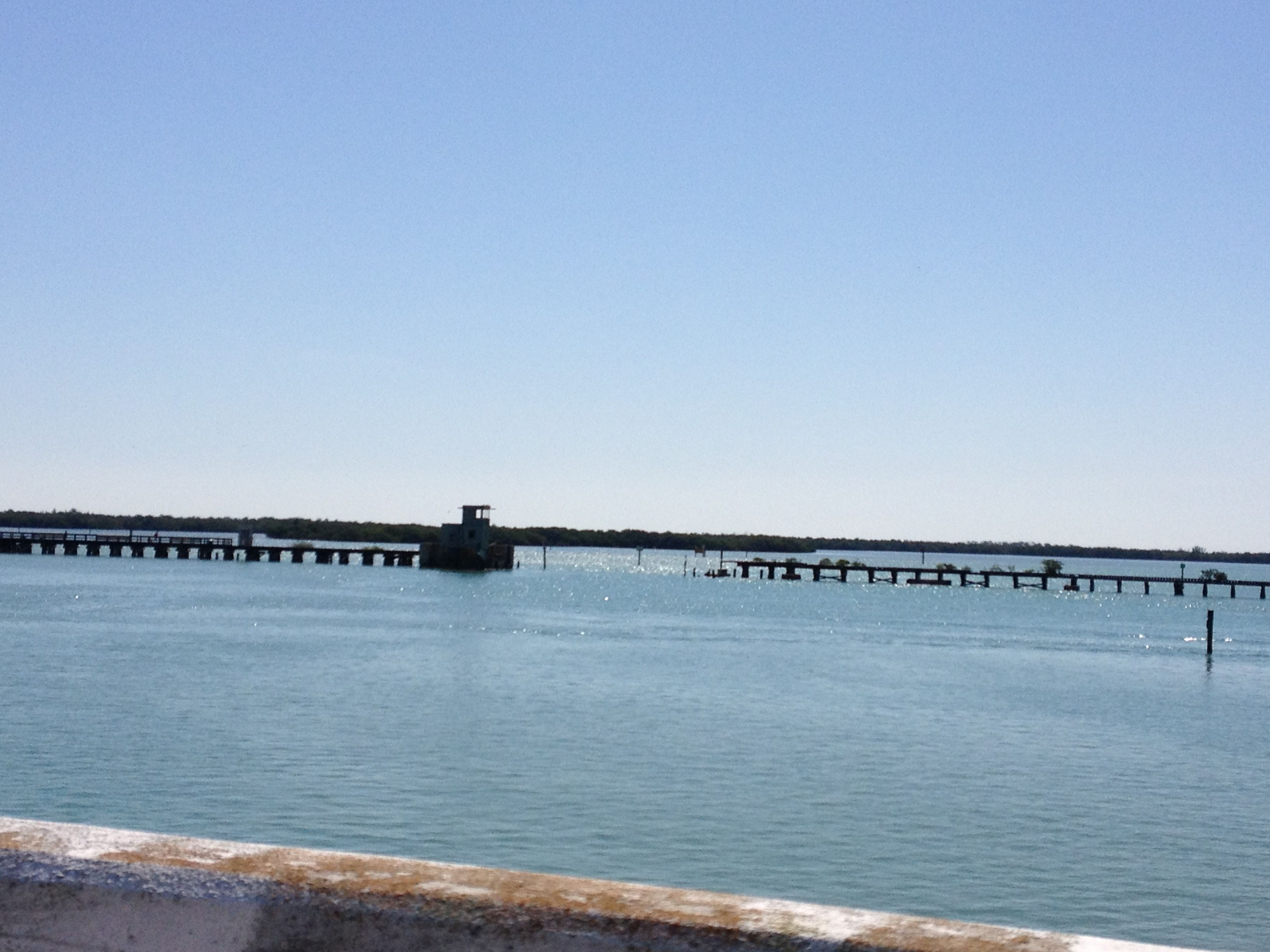 Charlotte Harbor & Northern Railway northern bacule bridge at Boca Grande